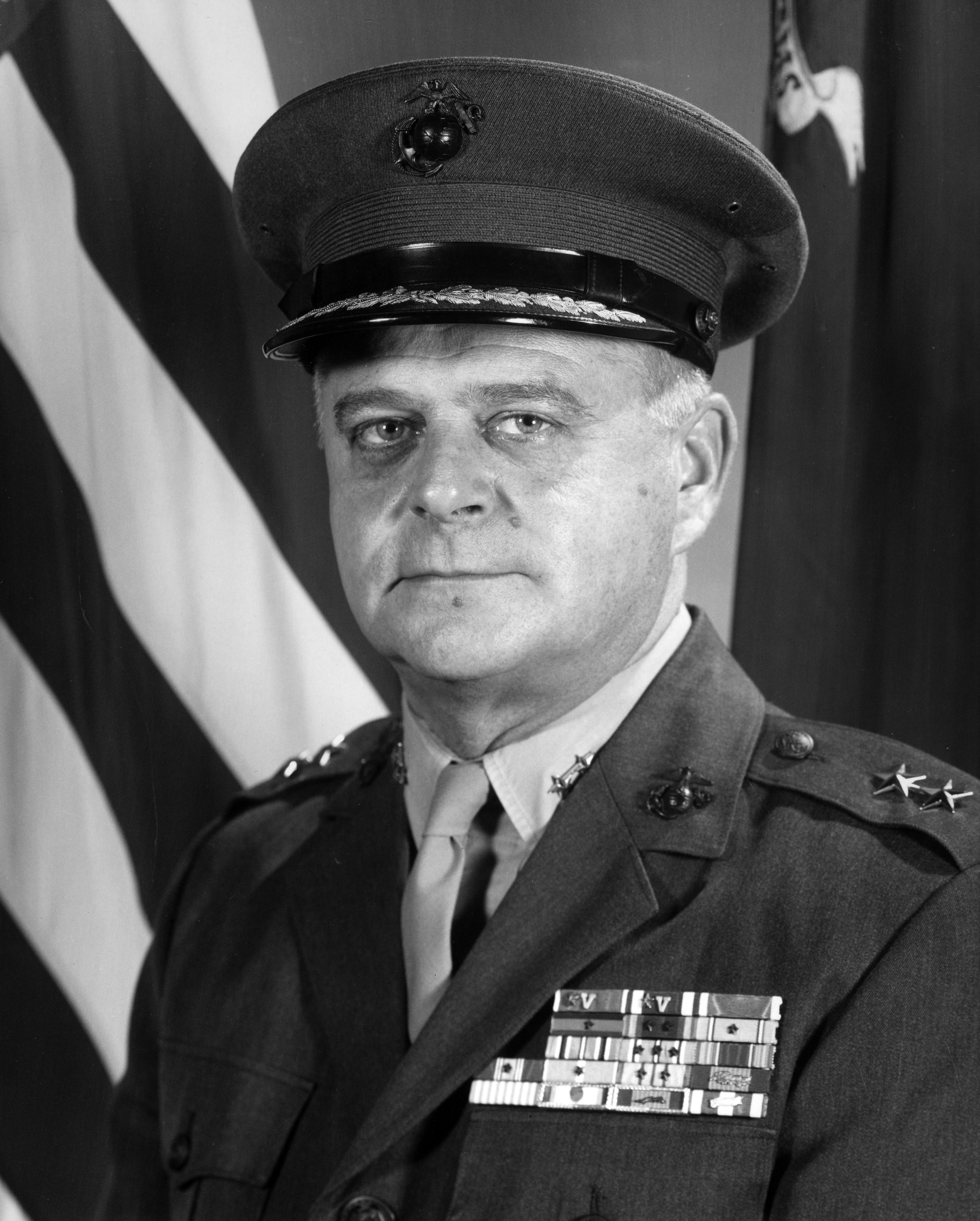 Herman Poggemeyer Jr. (April 22, 1919 - April 2, 2007) was a decorated officer in the United States Marine Corps with the rank of Major General. A veteran of three wars, he was severly wounded during the Recapture of Guam in July 1944. Poggemeyer later distinguished himself during Korean War and Vietnam and reached the general's rank in early 1970s. He completed his career as Commanding general, Marine Corps Base Camp Lejeune.